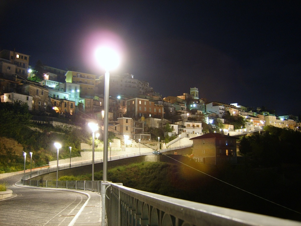 A view of Russo-Anzani street in Ariano Irpino (in the province of Avellino), Italy